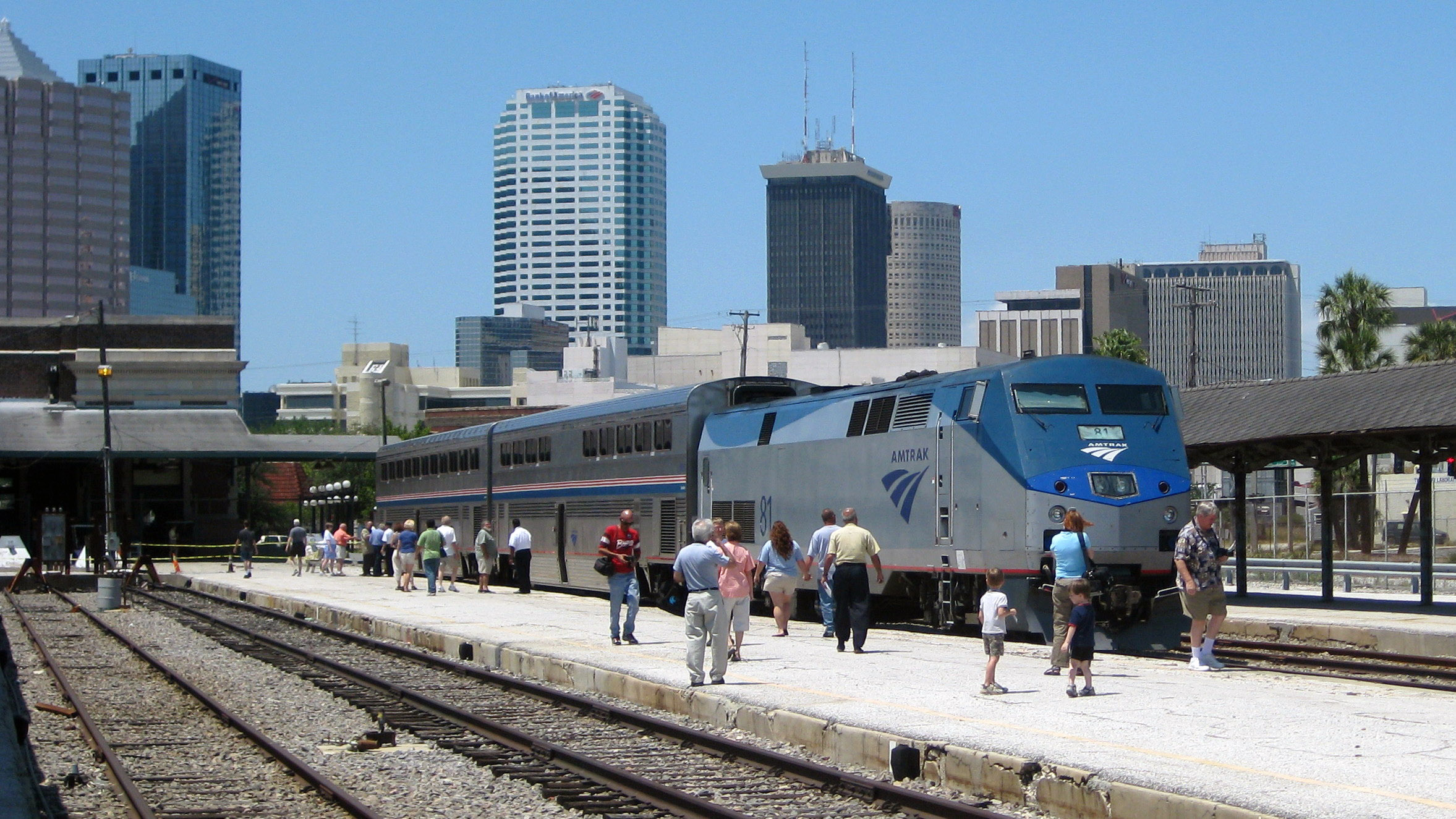 With the skyline of downtown Tampa as a backdrop, an Amtrak train sits along the stub-end platform behind Tampa Union Station. Special train P974 brought Superliner equipment for display at festivities for National Train Day 2009.